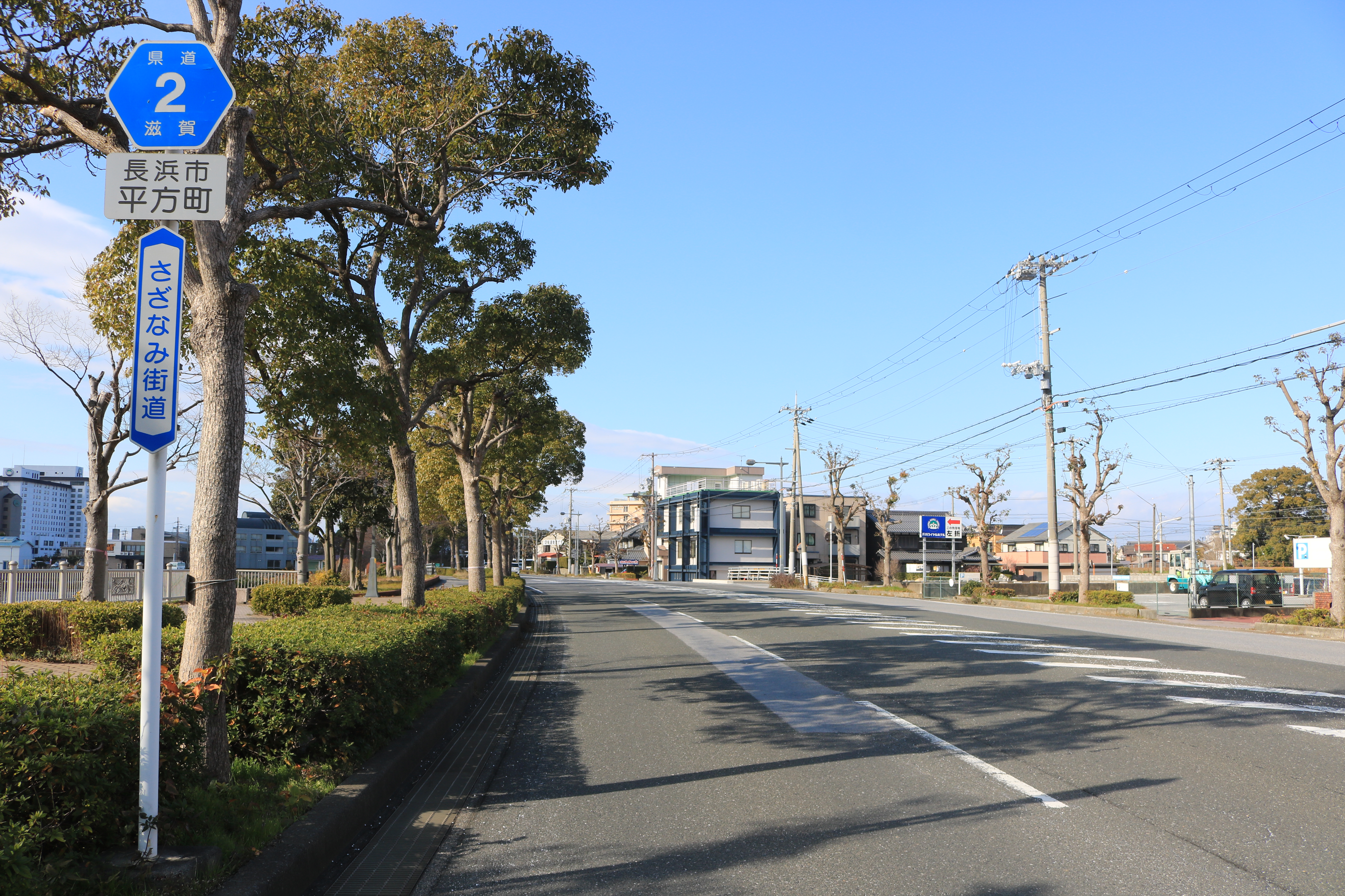 Shiga Prefectural Road Route 2 Hirakatacho, Nagahama, Shiga prefecture